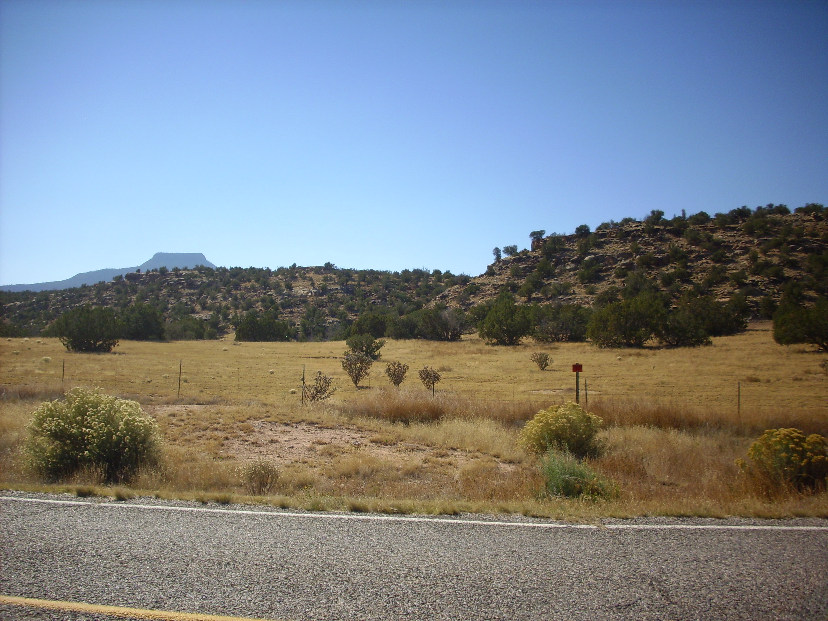 This image shows sandstone beds of the Poleo Formation exposed in a fault escarpment east of the village of Youngsville, New Mexico, USA.